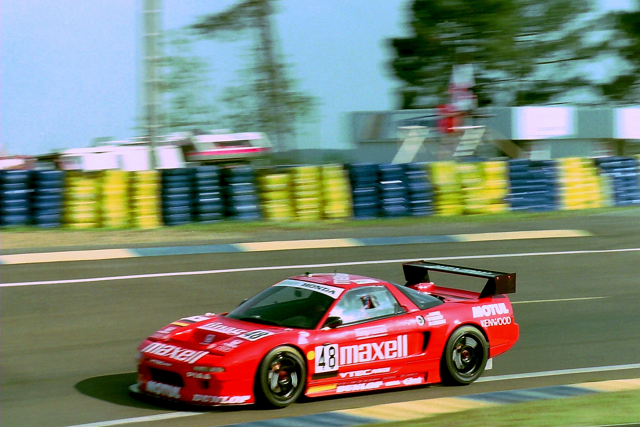 Honda NSX - Armin Hahne, Christophe Bouchut & Bertrand Gachot enters the Esses at the 1994 Le Mans